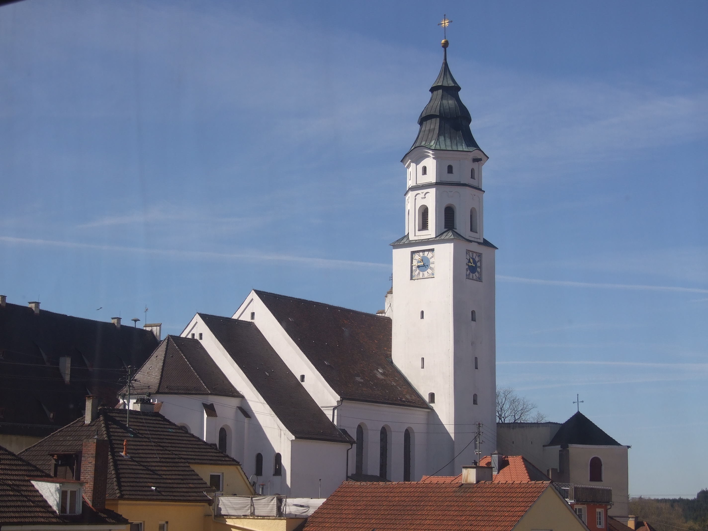 Church of St. Andrew in Germany, Babenhausen (Swabia)